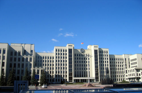 House of Government, Minsk, Belarus